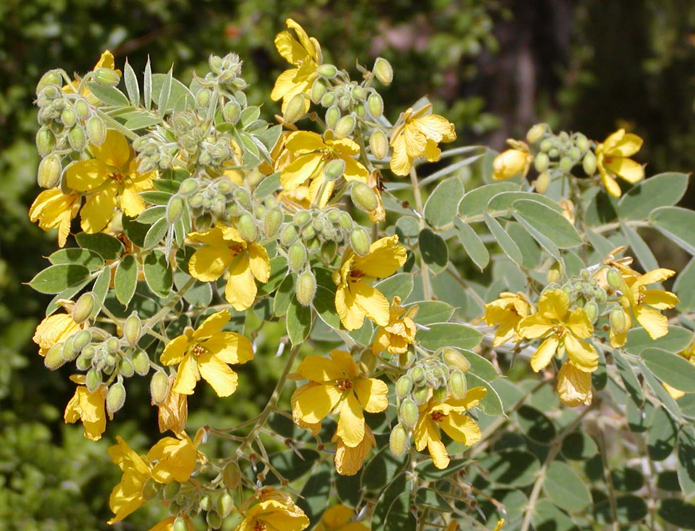 Photo of Senna lindheimeriana (velvet leaf senna or cassia) at the Desert Demonstration Garden in Las Vegas